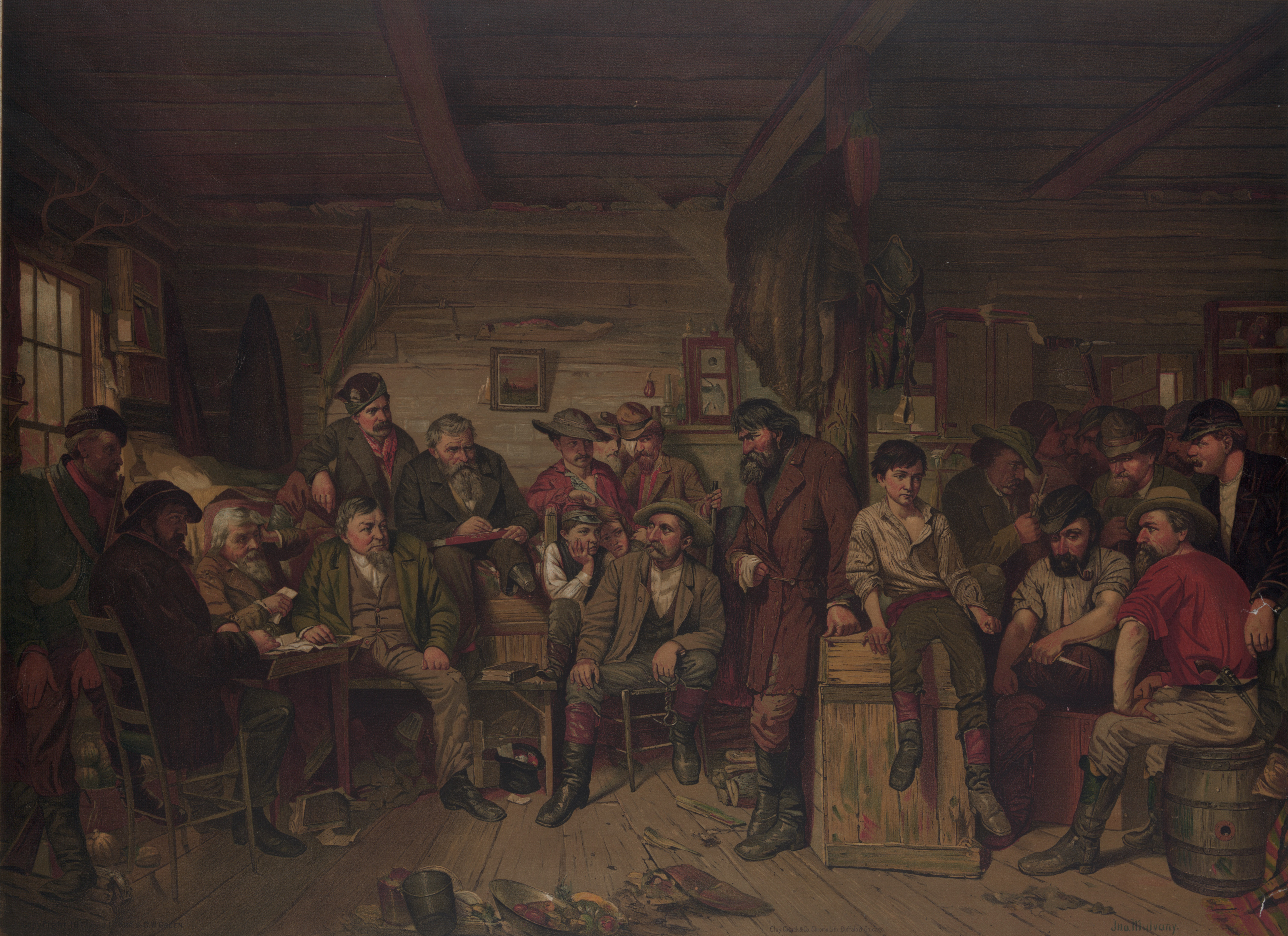 Title: The trial of a horse thief] / Jno. Mulvany ; Clay, Cosack & Co. chromo lith., Buffalo and Chicago Abstract/medium: 1 print : chromolithograph ; 60.2 x 75.8 cm (sheet)